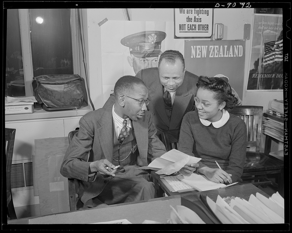 A man with glasses (Ted Poston) sits at an office desk holding a letter. A smiling woman (his assistant Harriette Easterlin) sits next to him and a man (his assistant William Clark) leans over them both. A poster behind them depicts a soldier and reads "We are fighting the Axis not each other" and "New Zealand".